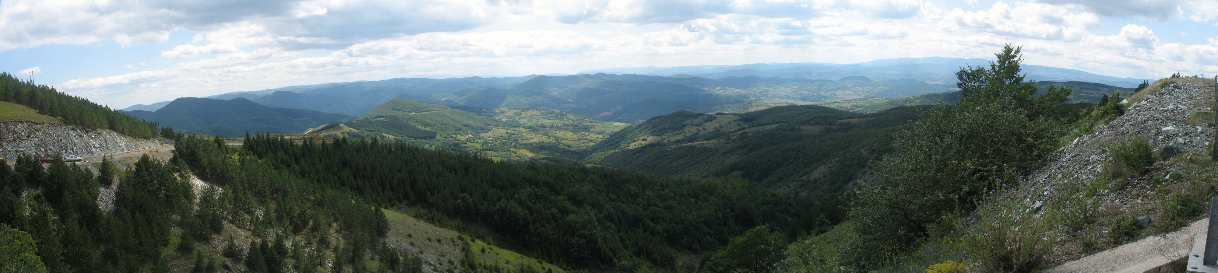 Panoramic view on Raška and Ibar river valley from Kopaonik above Rudnica, Serbia.